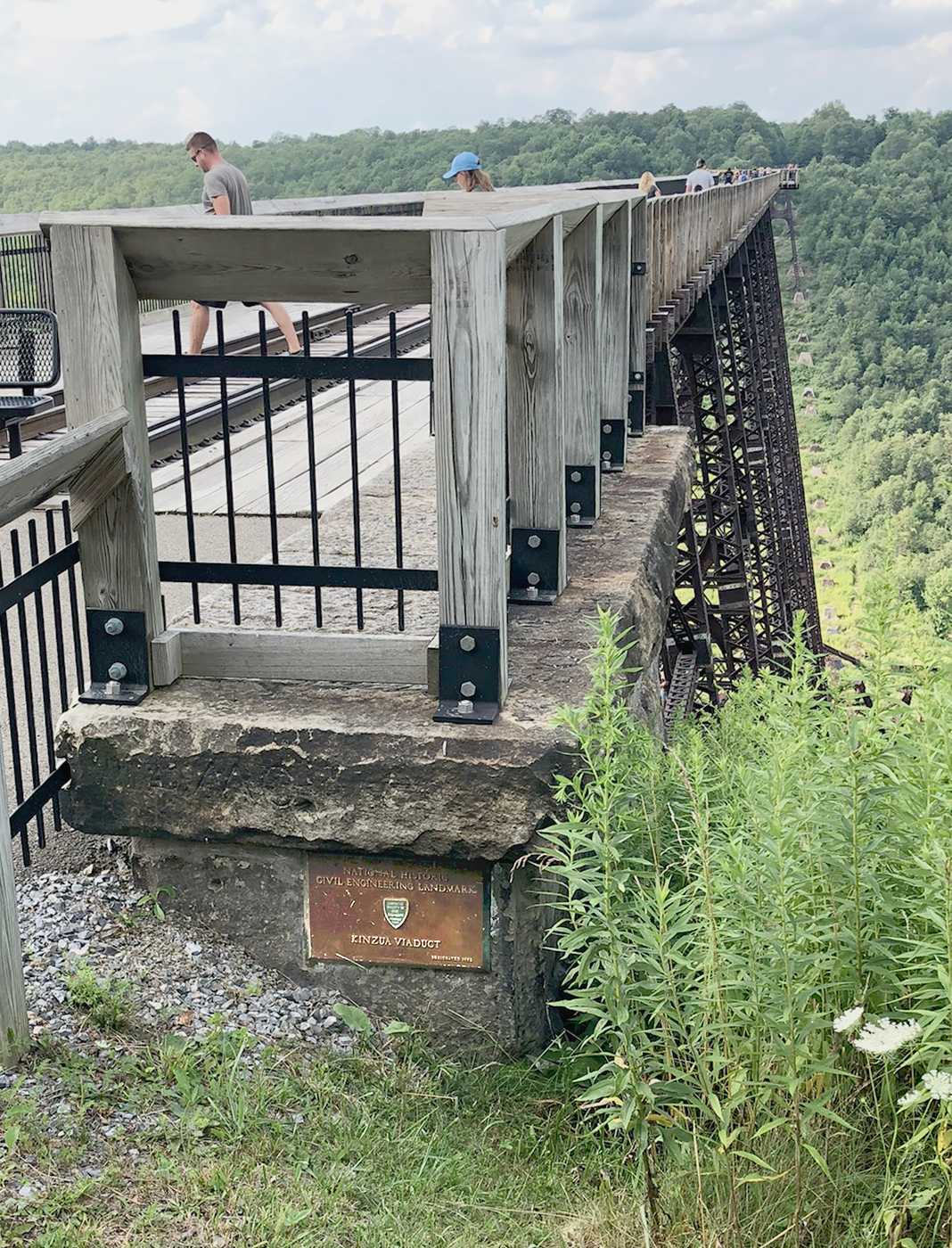 Looking from the southeast abutment of Kinzua bridge, northerly to the other side of Kinzua Creek in McKean County, Pennsylvania.